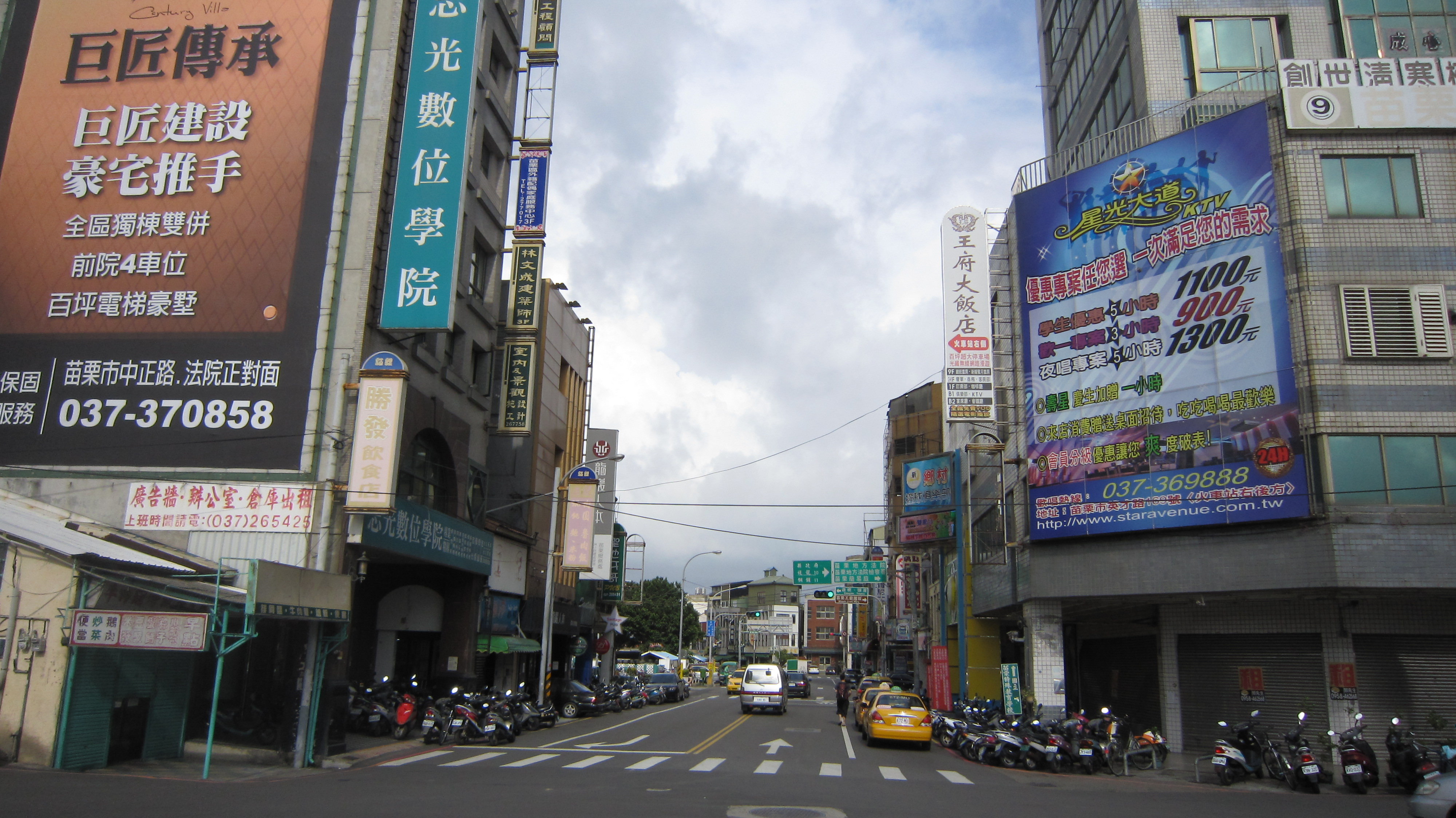 苗栗市苗栗火車站Miaoli City, Miaoli Station